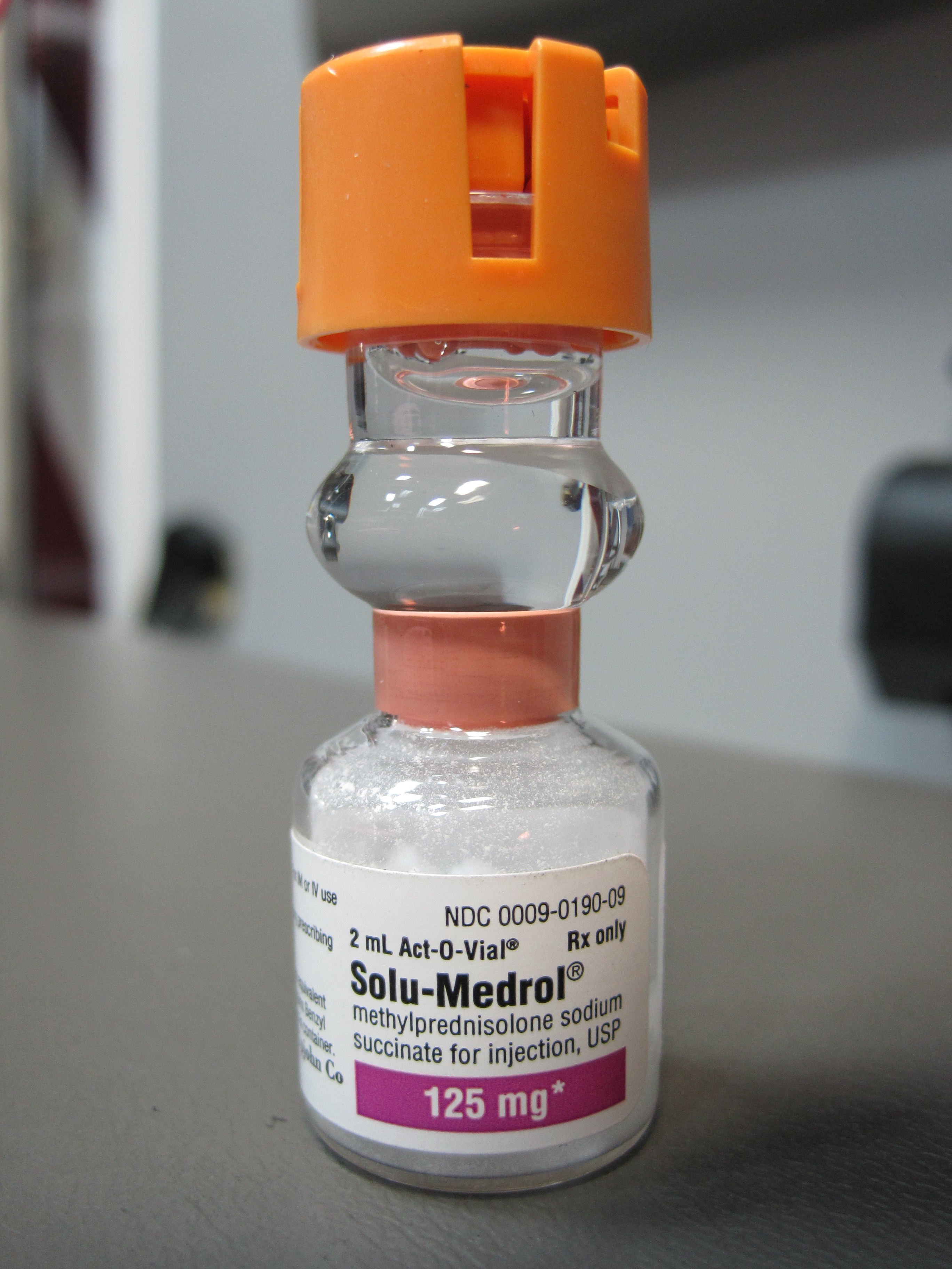 Methylprednisone sodium succinate preparation, single dose vial for intravenous administration.